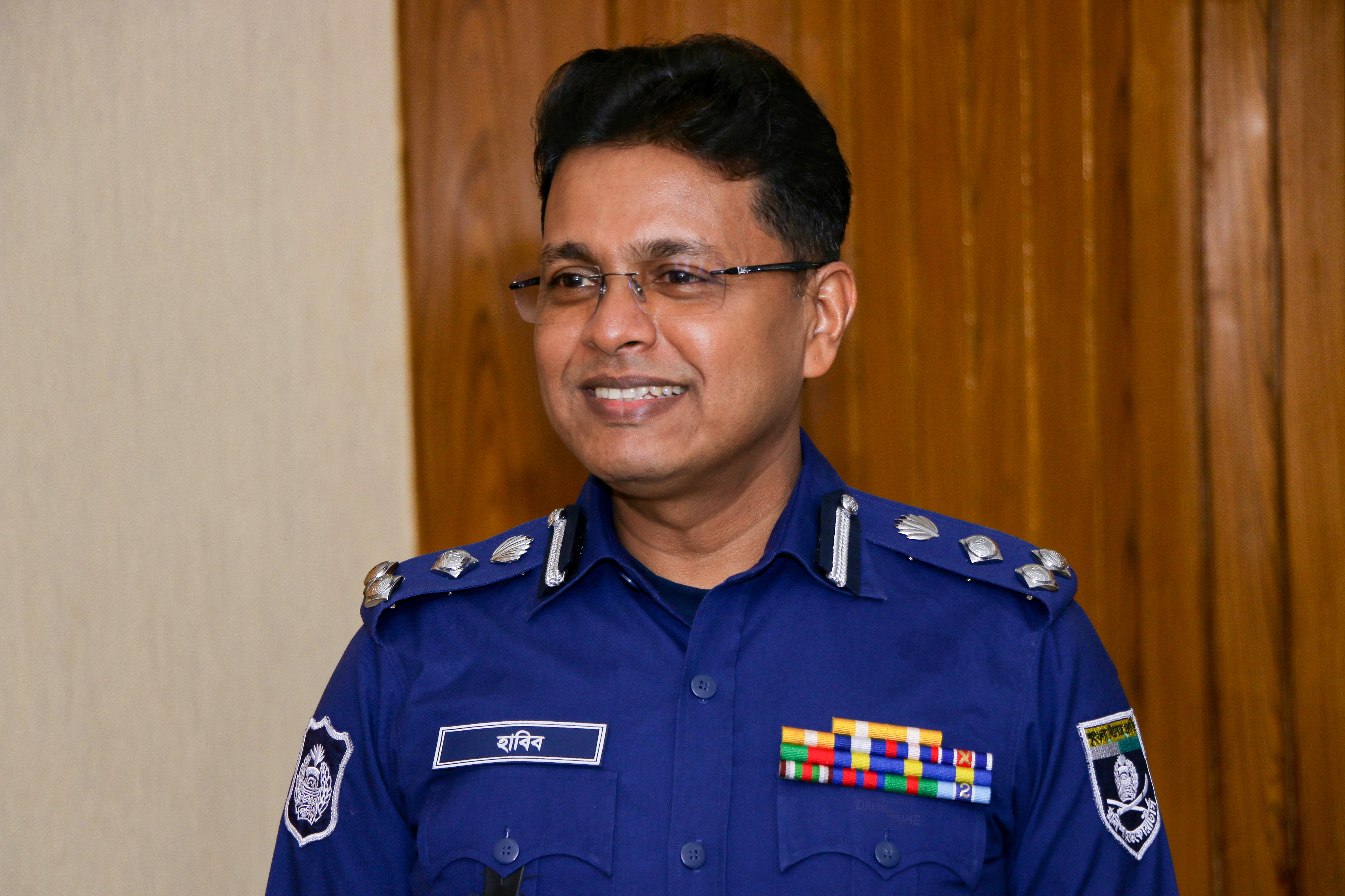 Deputy Inspector General Habibur Rahman is at police headquarters and is talking with journalists and media persons. He is talking about rehabilitation of Trans gender people in Bangladesh. He also talked about a film which is based on trans gender people, making by Dreams In Frame production house